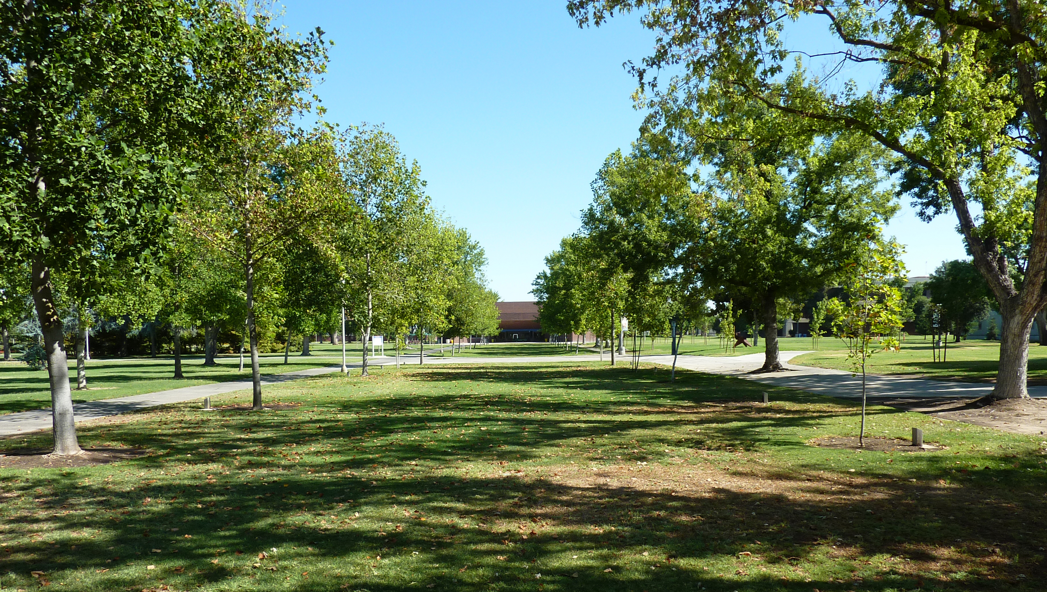 Section of the Tree Walk, part of Fresno State's arboretum status, Fresno, California, USA.